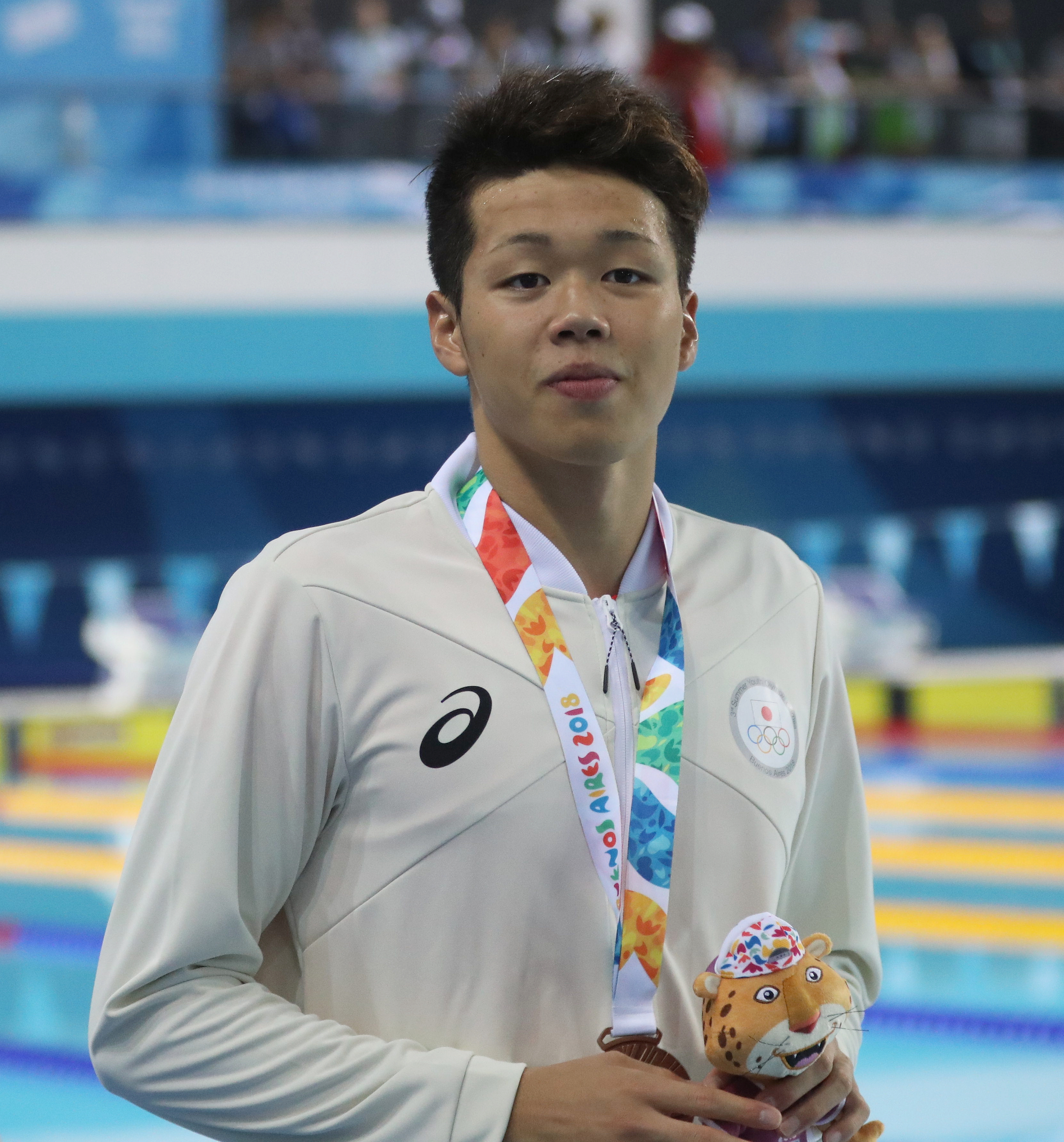 Swimming of boys' 400 m freestyle final at the 2018 Summer Youth Olympics in Buenos Aires on 7 October 2018.